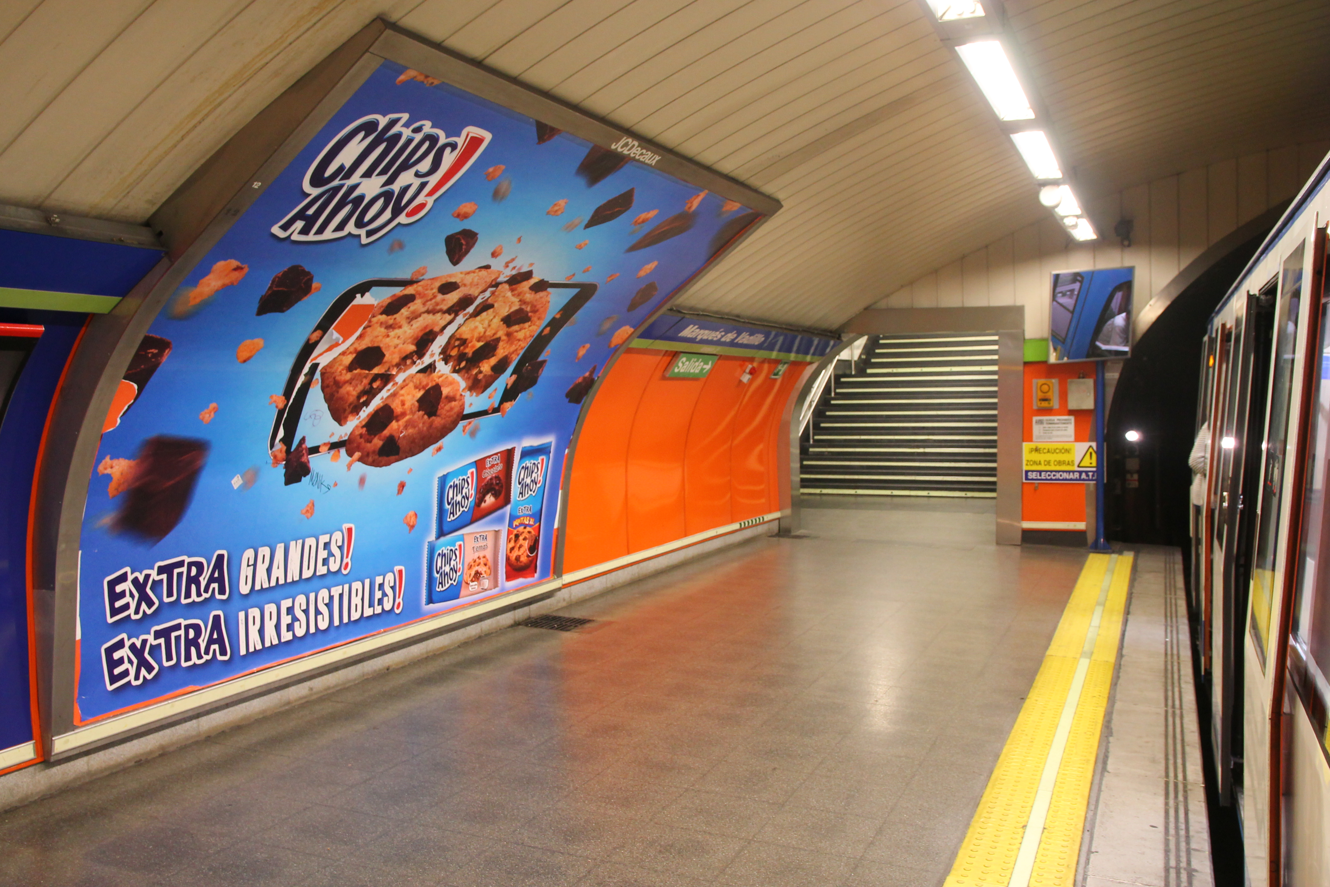 Estación de Marqués de Vadillo